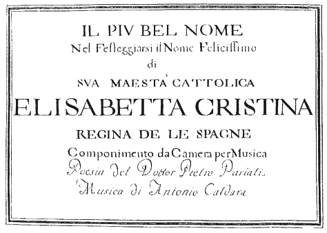 Antonio Caldara - Il più bel nome - title page